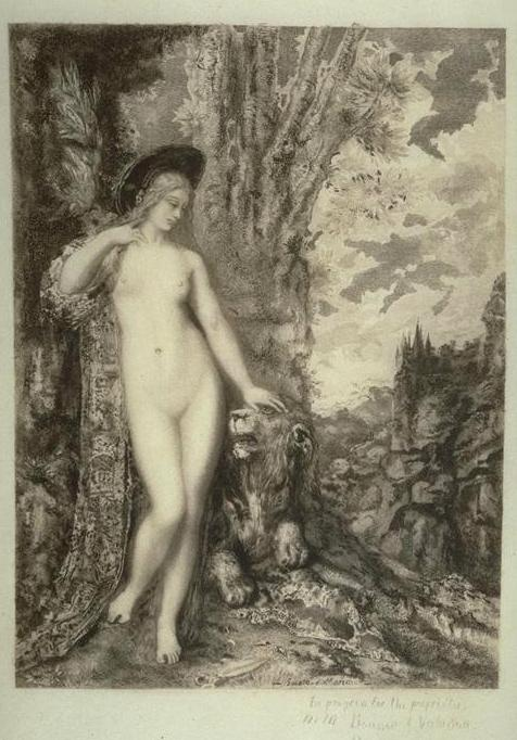 La Fontaine's fable of Le lion amoureux, an etching by Félix BRACQUEMOND after Gustave MOREAU, 1886